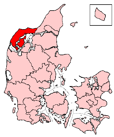 Map of Thisted County 1793-1970